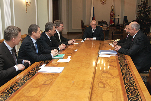 NOVO-OGARYOVO. Meeting on deliveries of Russian gas to Ukraine.